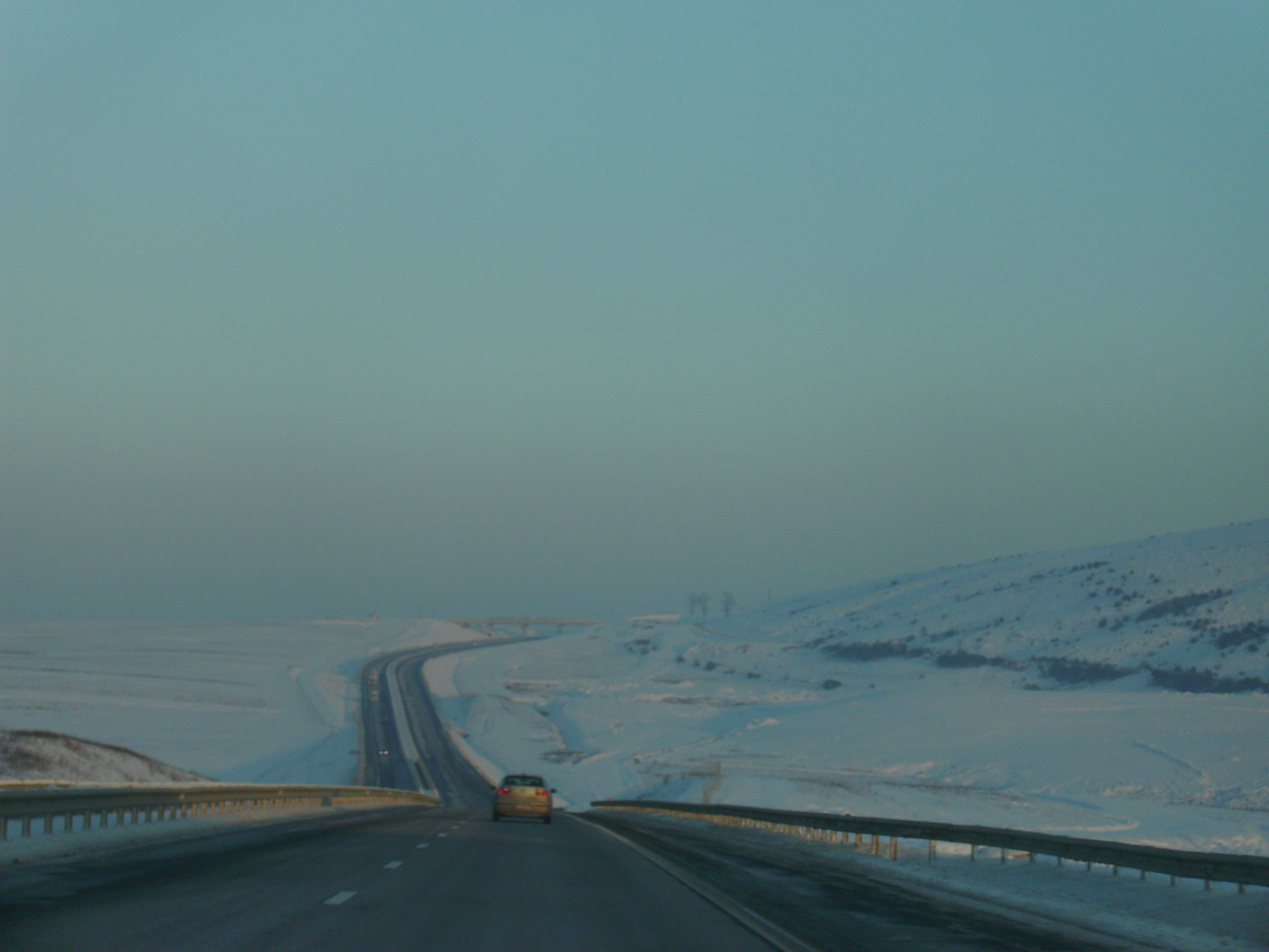 Transylvania motorway (Romania)